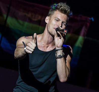 Thomas Puskailer performing on Prague Pride 2012